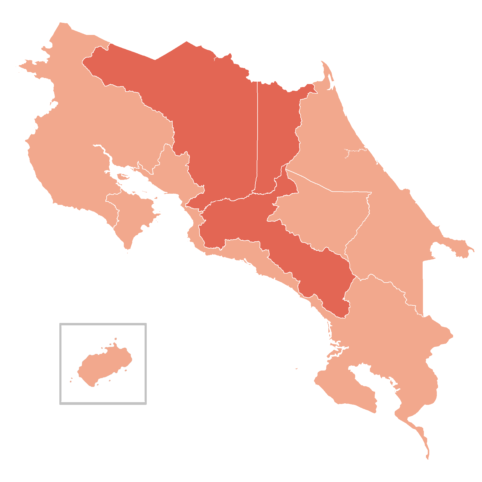 Map of provinces with confirmed (red) or suspected (blue) coronavirus cases (as of April 2020) Confirmed 1~9 Confirmed 10~199 Confirmed 100~499